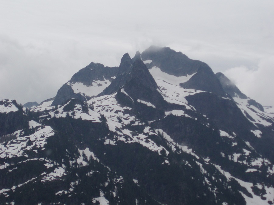 shows Five Fingers Group as seen from a helicopter above Pitt Lake. The highest peak is the Middle Finger